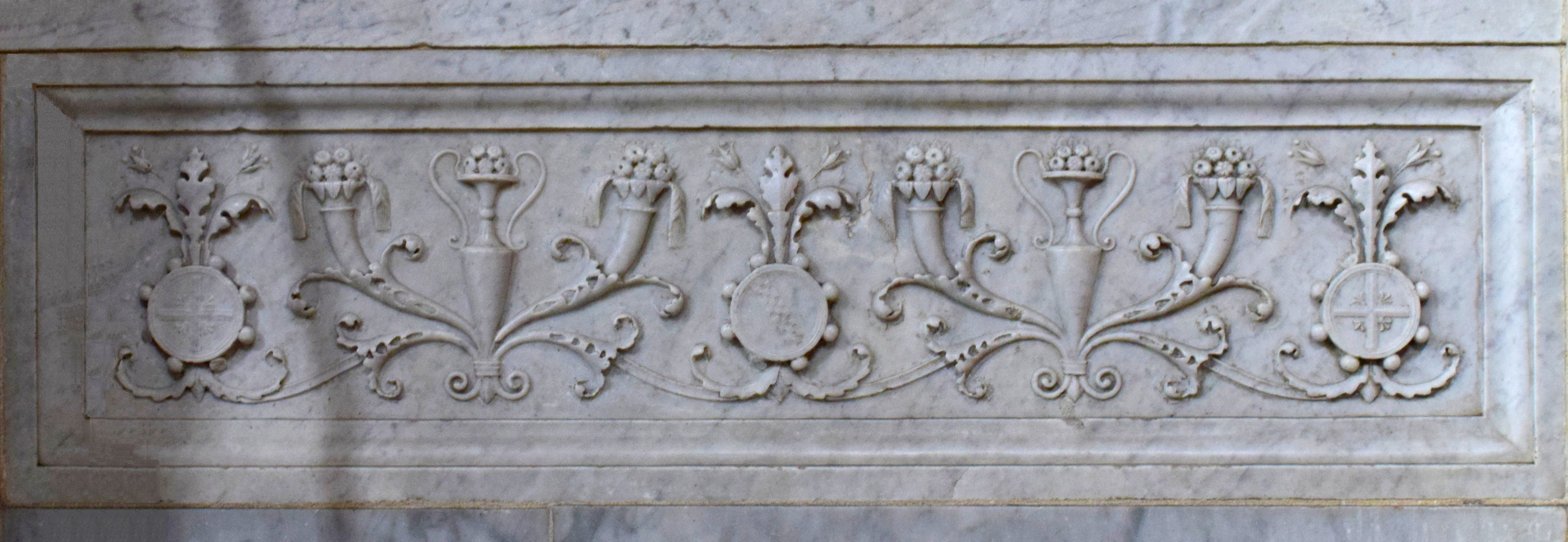 Middle panel of the Renaissance transenna (parapet) in the Cybo-Soderini Chapel in the Basilica of Santa Maria del Popolo with symbols of the House of Cybo (cross, bend chequy); c. 1480s.